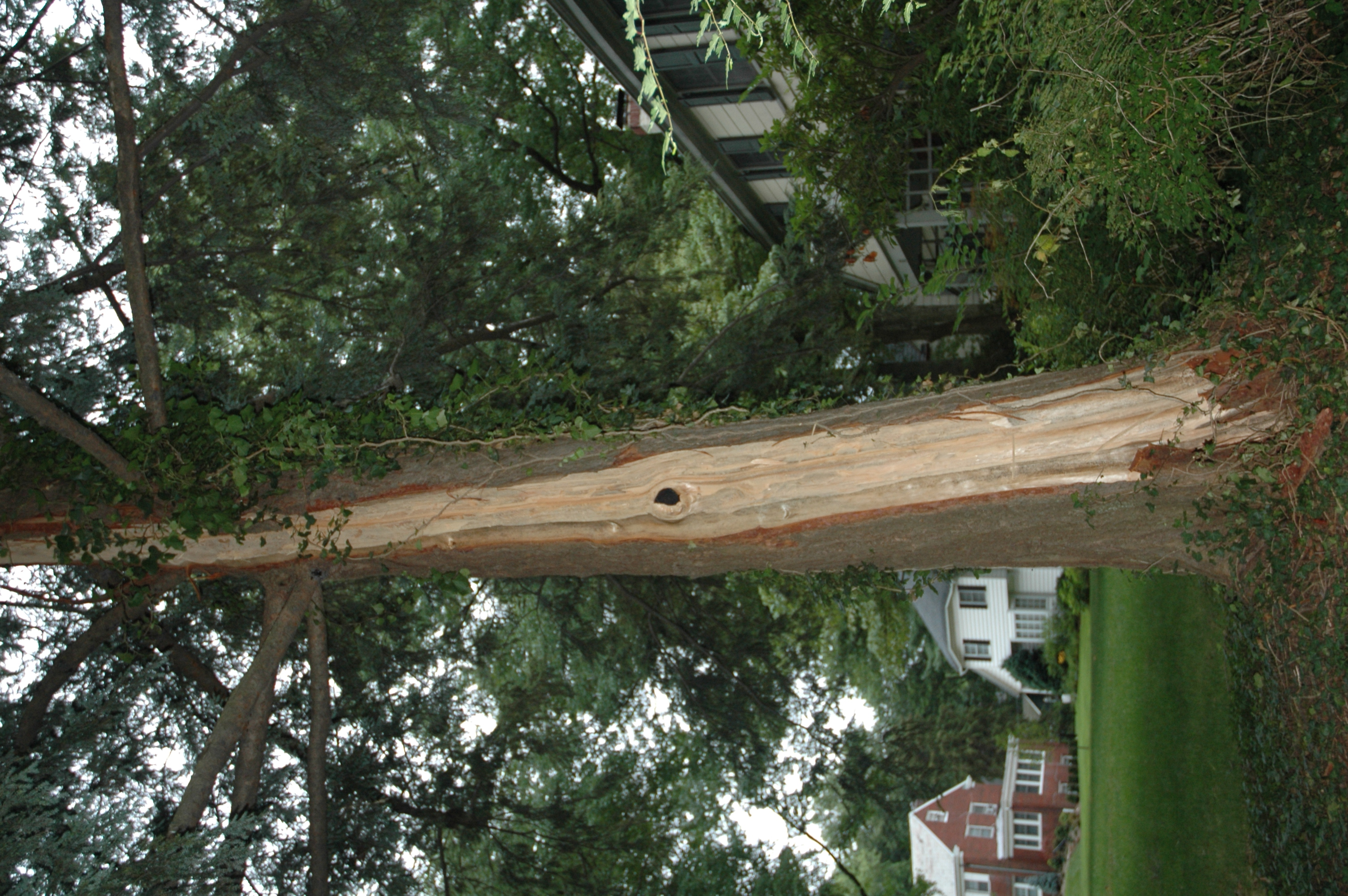 Lightning damage in Maplewood, New Jersey